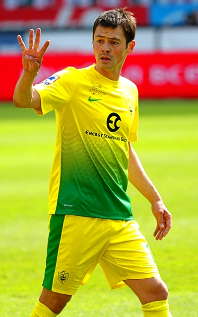 Diniyar Bilyaletdinov2014